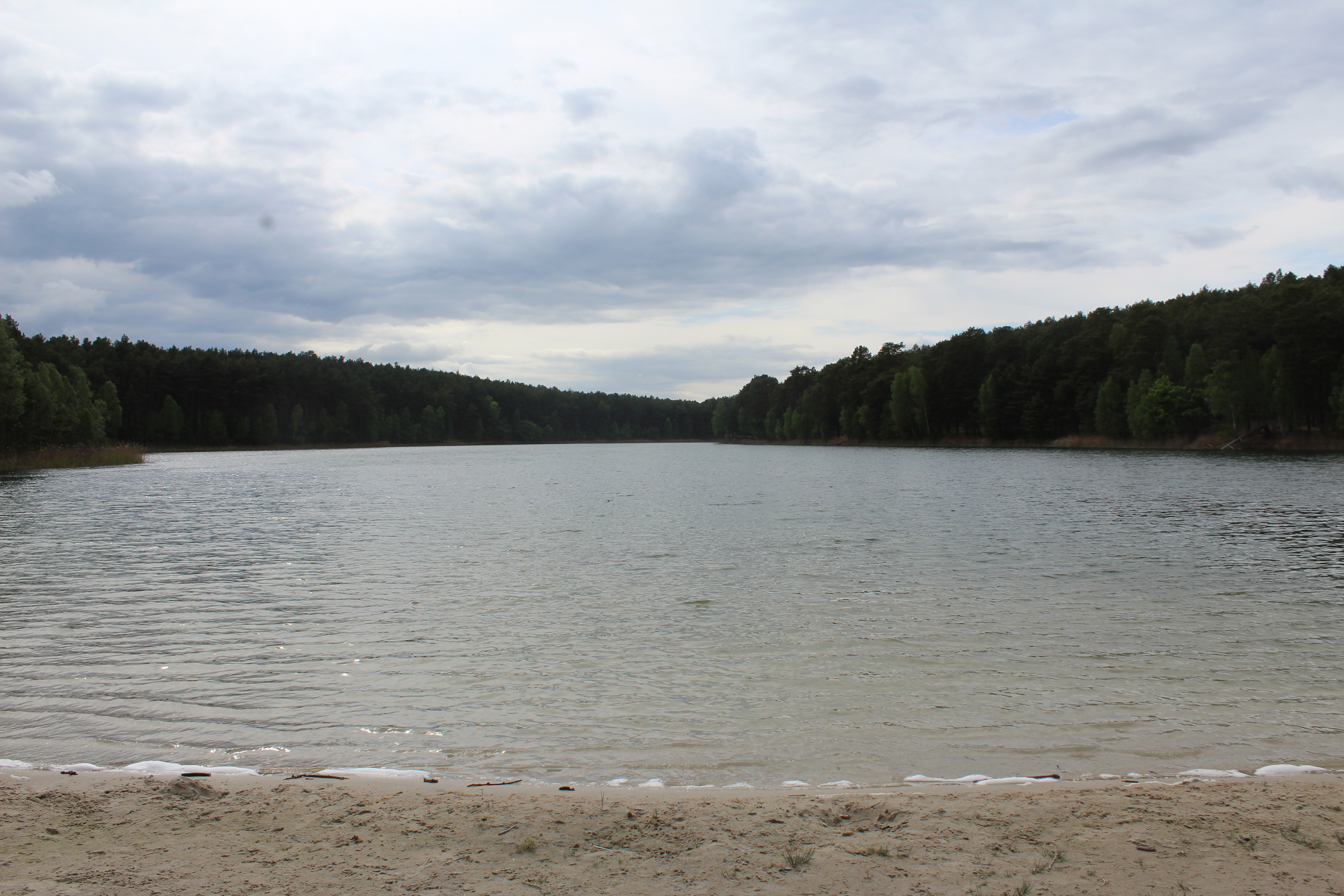 The big Milasee shot from the north east.